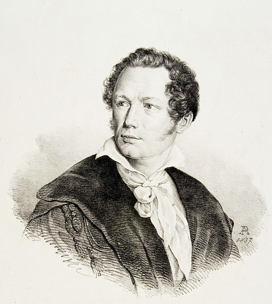 Fryderyk Skarbek